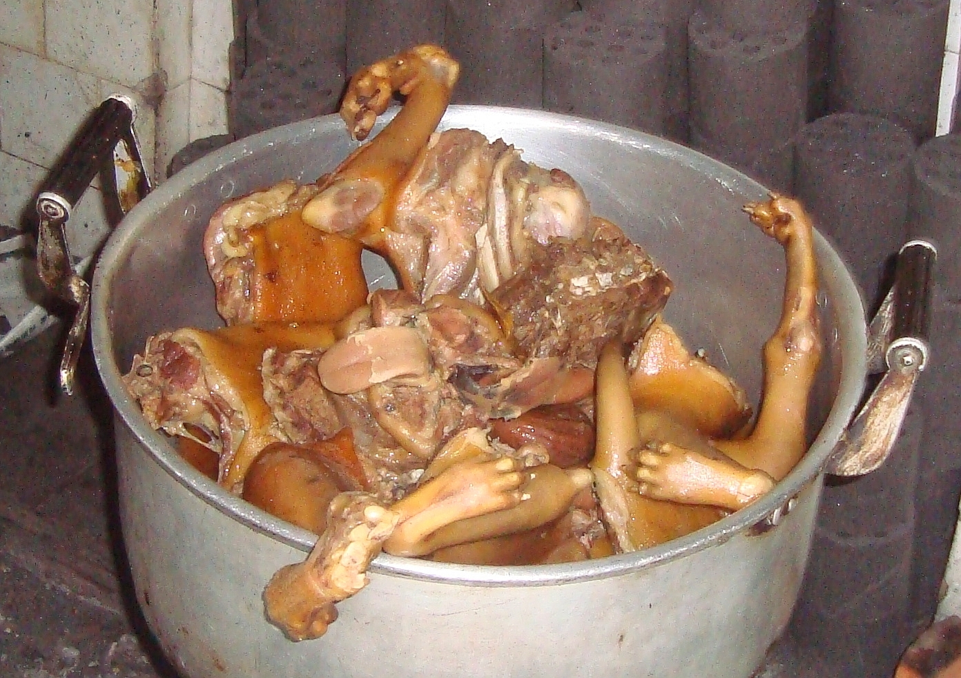 Partly cooked dog meat in a pot, showing paws, legs, a tongue, and other parts. Photo taken in South East Asia.